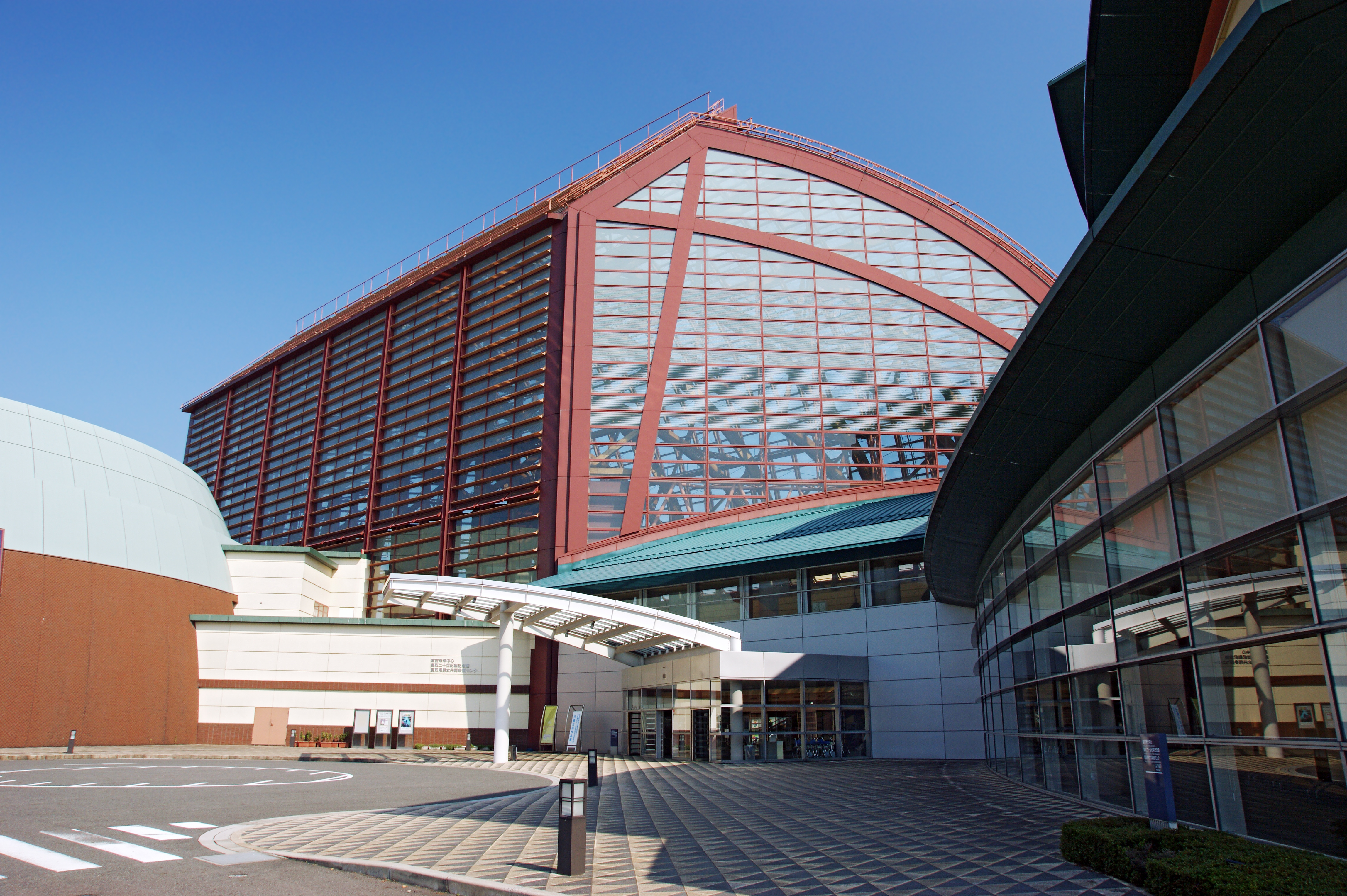 Kurayoshi Park Square in Kurayoshi, Tottori prefecture, Japan